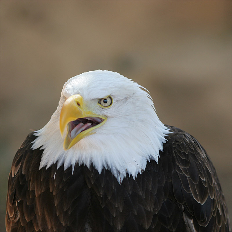 A picture of an Eagle I took. Photo by Thermos.